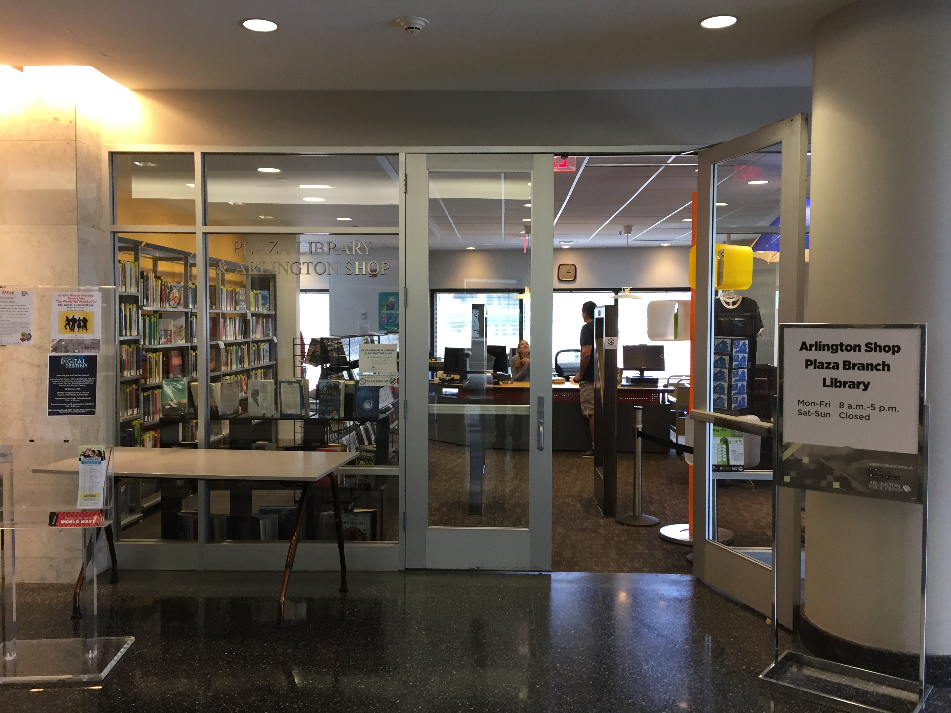 Plaza Branch Library in Arlington, Virginia in 2018